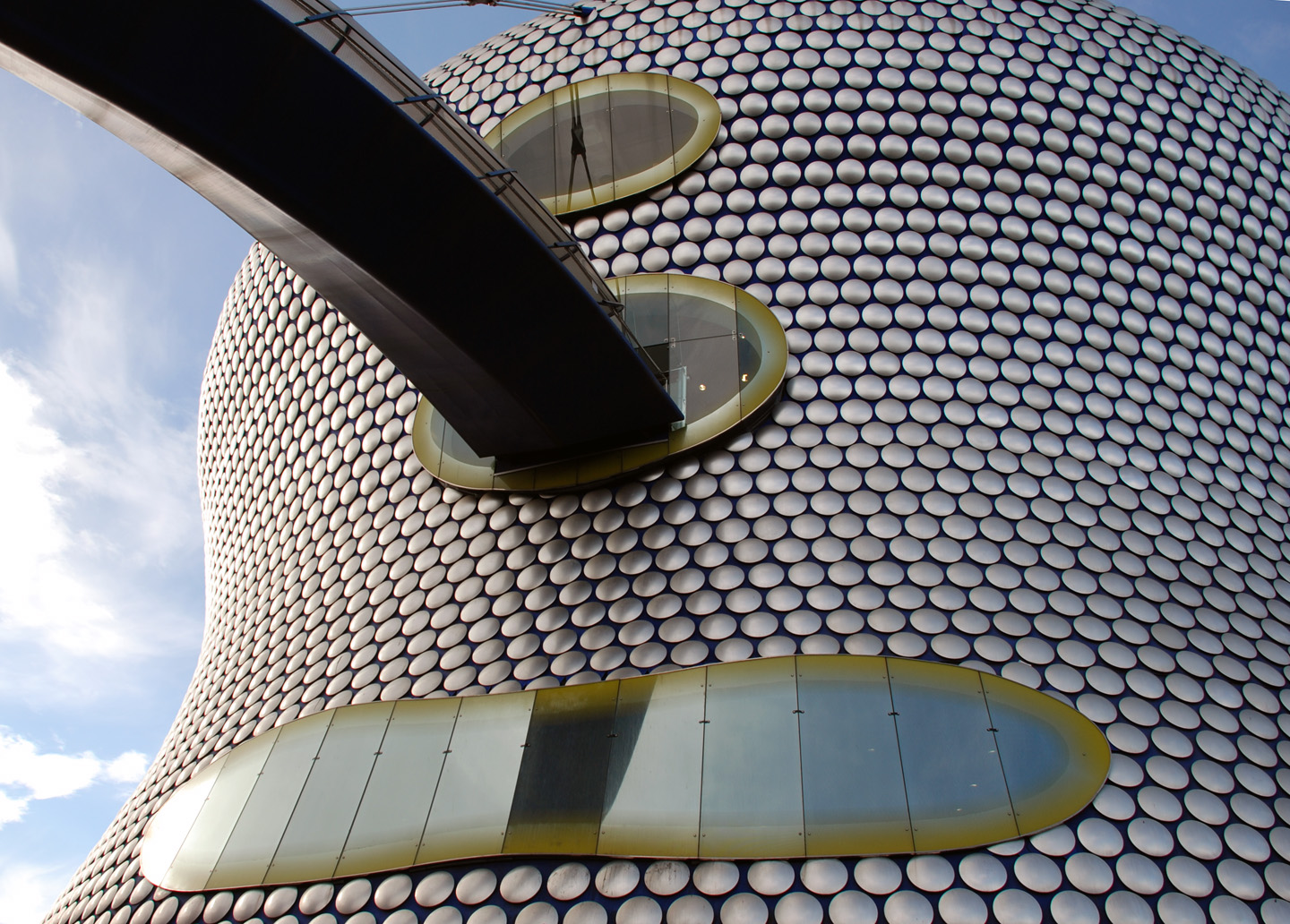 View of the Selfridges Skybridge from Park Street, Birmingham, England.